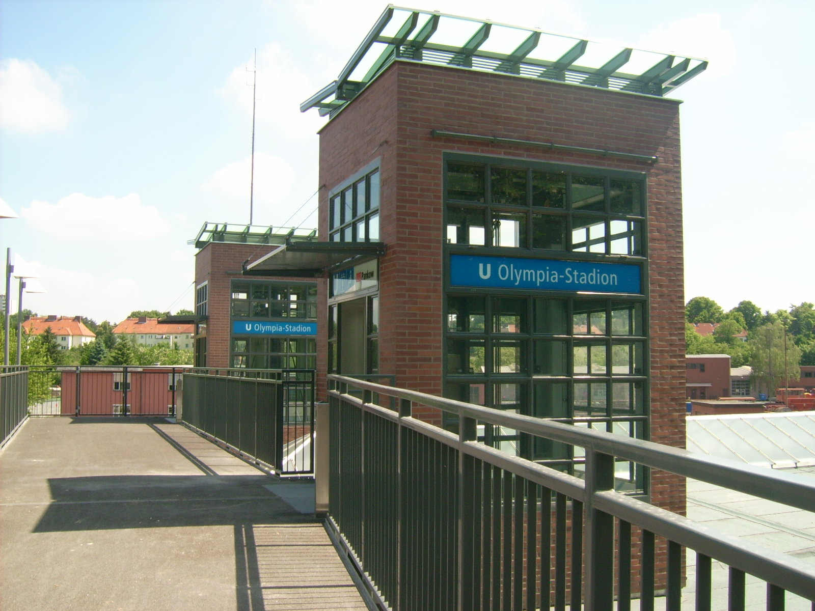 Elevators of the Berlin U-Bahn station Olympia-Stadion, line U2